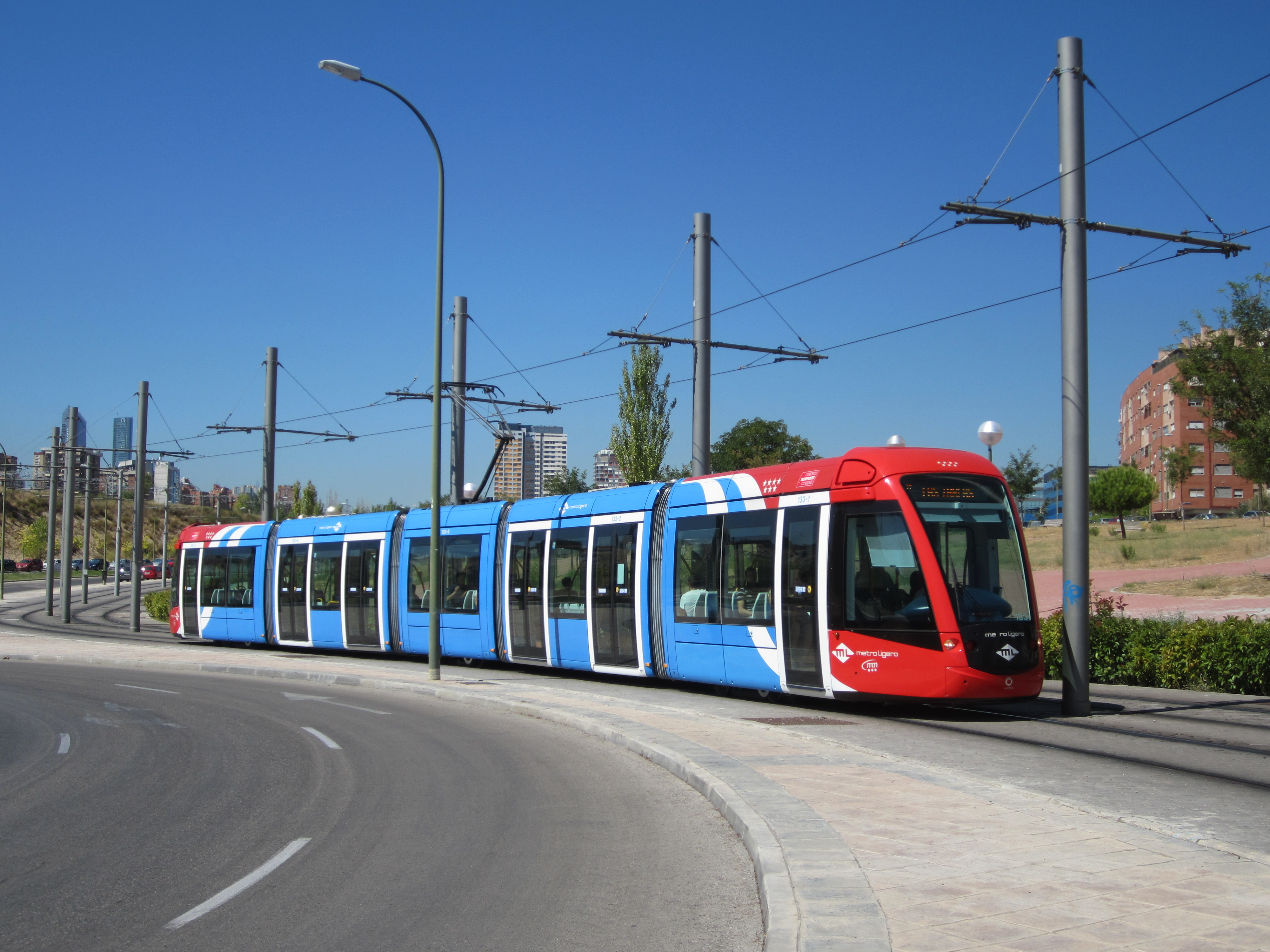 Madrid tramcar 133, an Alstom Citadis 302, eastbound on Calle del Principe Carlos, approaching the "Antonio Saura" stop of the Metro Ligero de Madrid tram/light rail line.